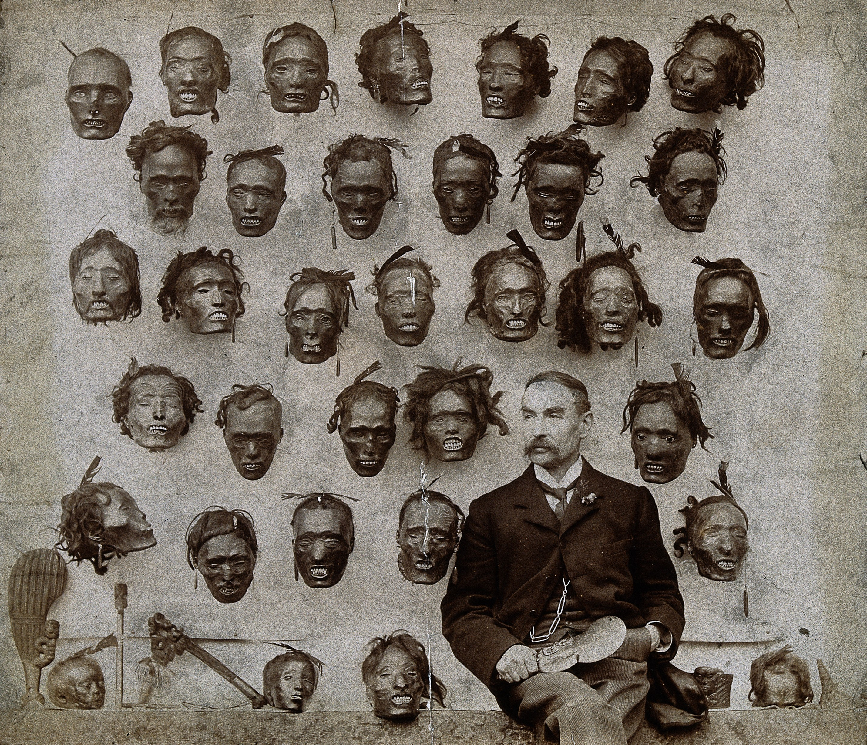 Horatio Robley, seated with his collection of severed heads Iconographic Collections Keywords: Horatio Gordon Robley